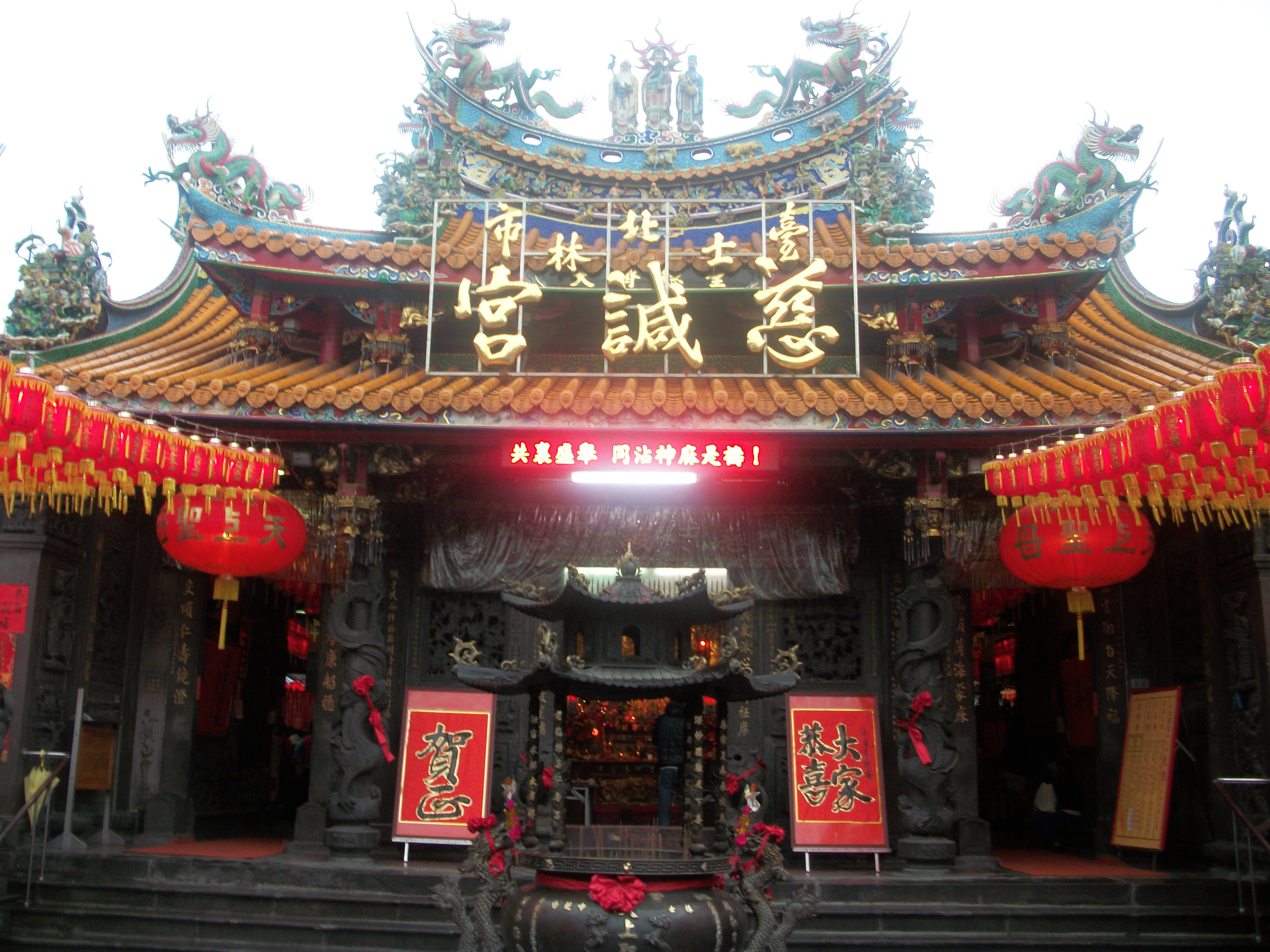 Tzu-Xian Temple in Shilin,Taipei City.